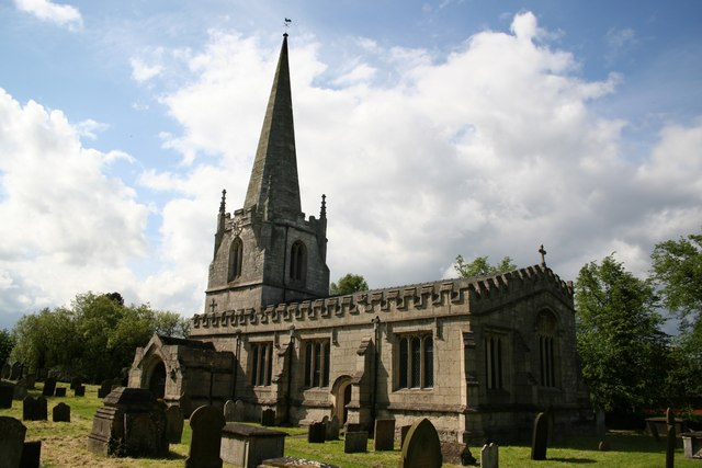 St.Wilfrid's, Scrooby. Marvellous crenellated Perpendicular church with a curious transition from square tower to octagonal spire